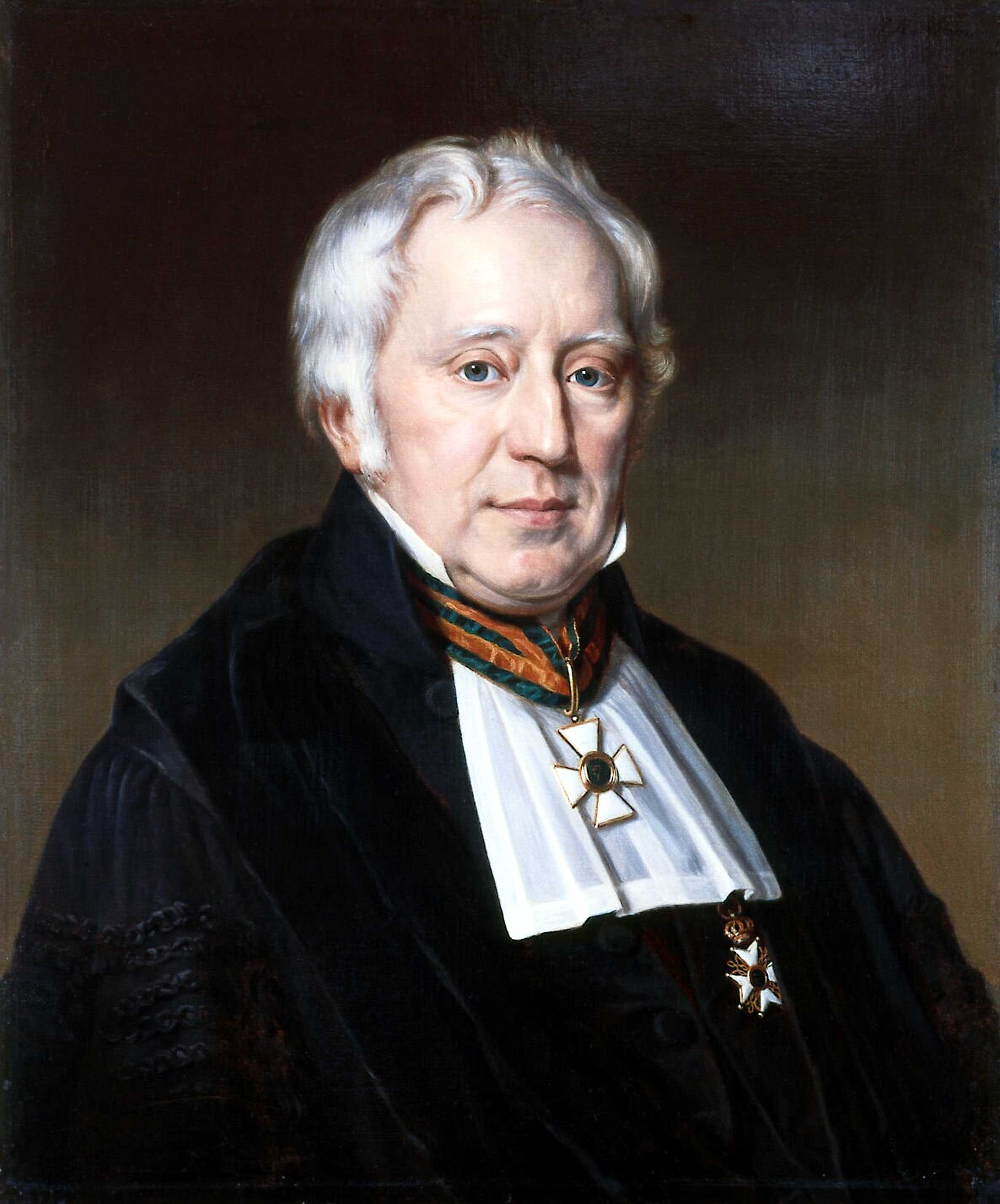 Herman Johan Royaards (1794-1854) Dutch Reformed theologian and church historian